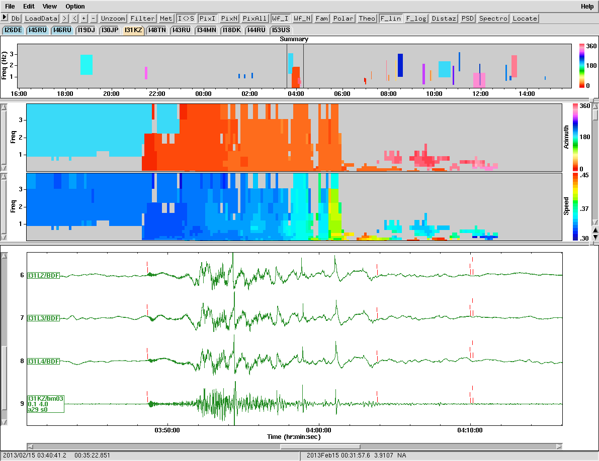 A visual representation of the infrasound waves and computer attributes by the CTBTO’s International Data Centre, from the fireball recorded by the CTBTO station in Kazakhstan.